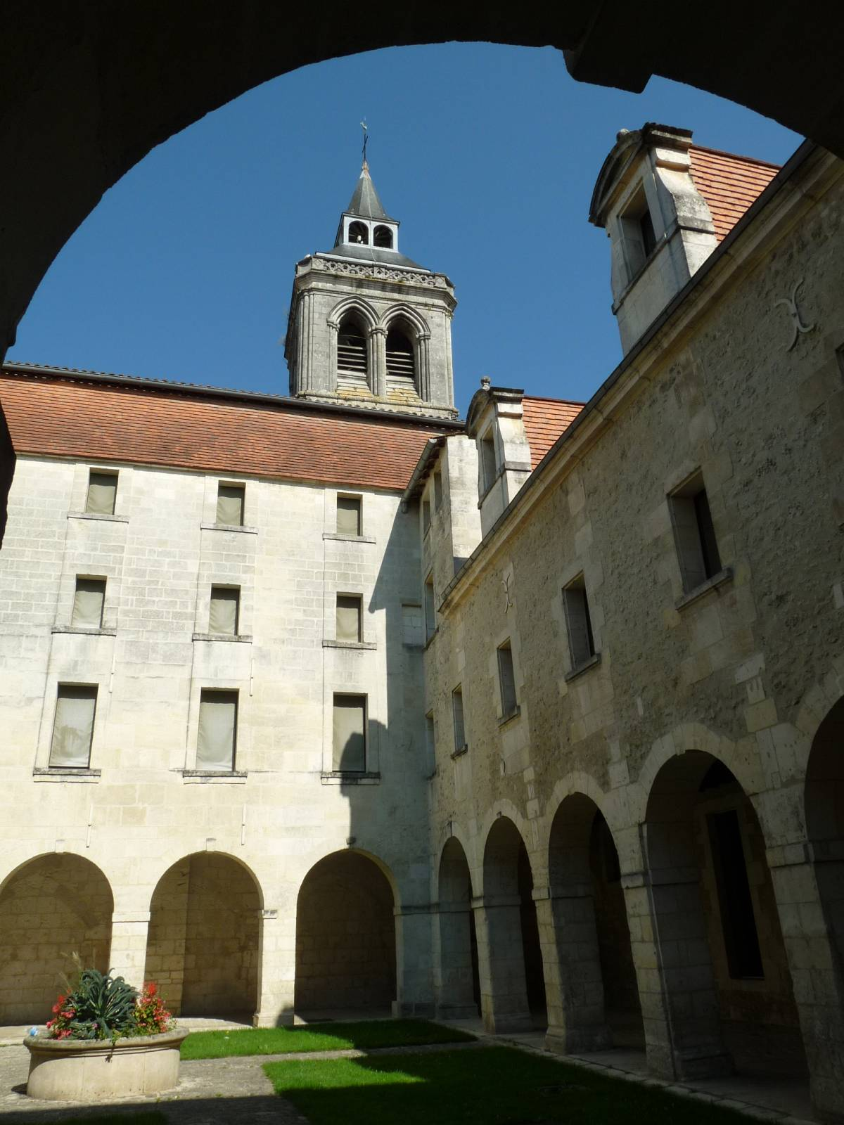 cloister of St-Léger church, Cognac, Charente, SW France